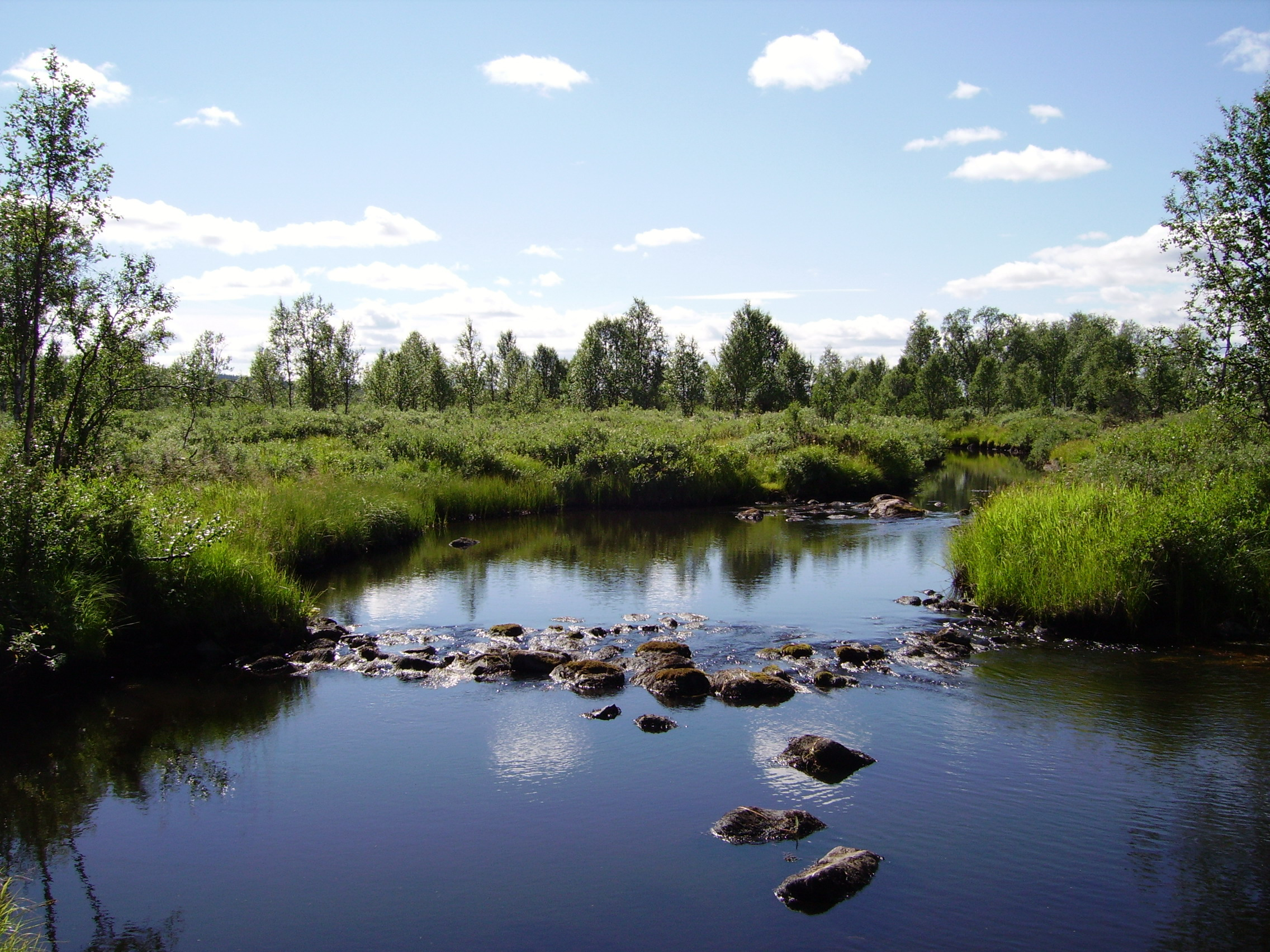 View from the stream Risbäcken, Sweden